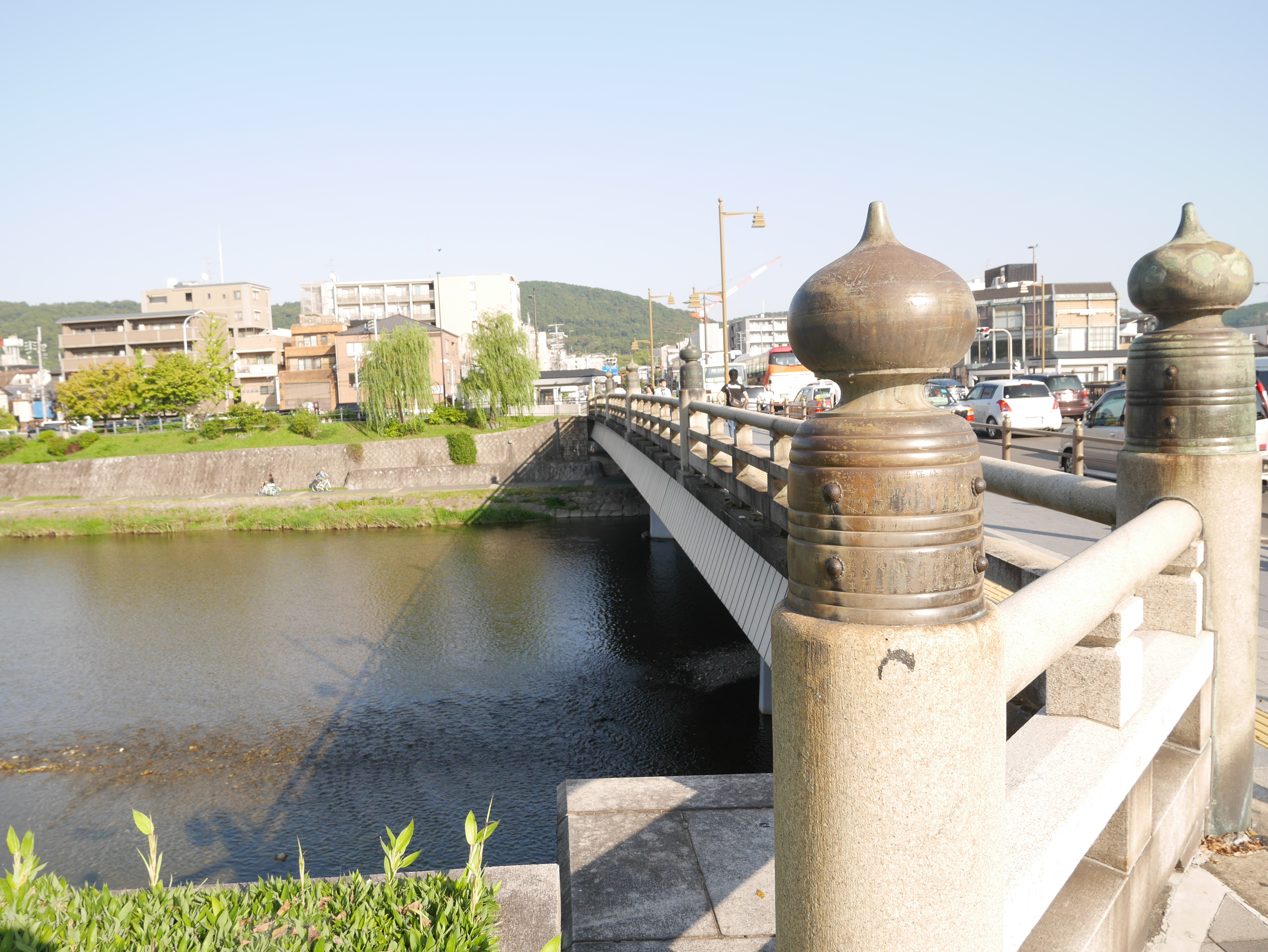 Gojo Ohashi. Gojo Bridge, has been built in Kitagi stone.